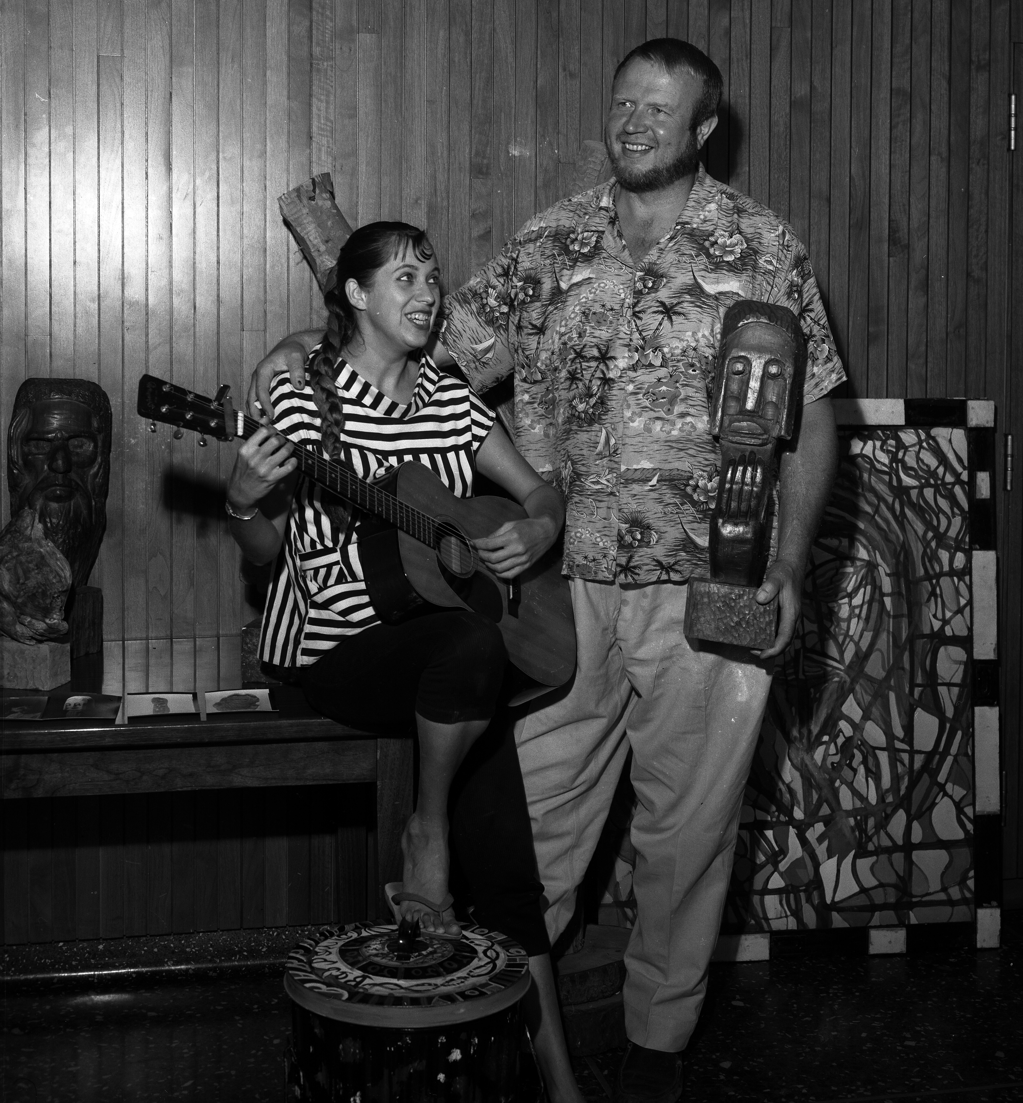 Title: Beatniks Eric (Big Daddy) Nord and Julie Meredith at the Gas House in Venice Beach, Calif., 1959 Published caption:WAY OUT ART-Eric (Big Daddy) Nord displays an item from beatnik exhibit as Julie Meredith plays guitar and sings a ballad during recess in Police Commission hearing on license for beatnik hangout. Publication:Los Angeles Times Publication date:September 3, 1959 Source:Los Angeles Times photographic archive, UCLA Library Licensing Note about non-renewal of copyright: [1]